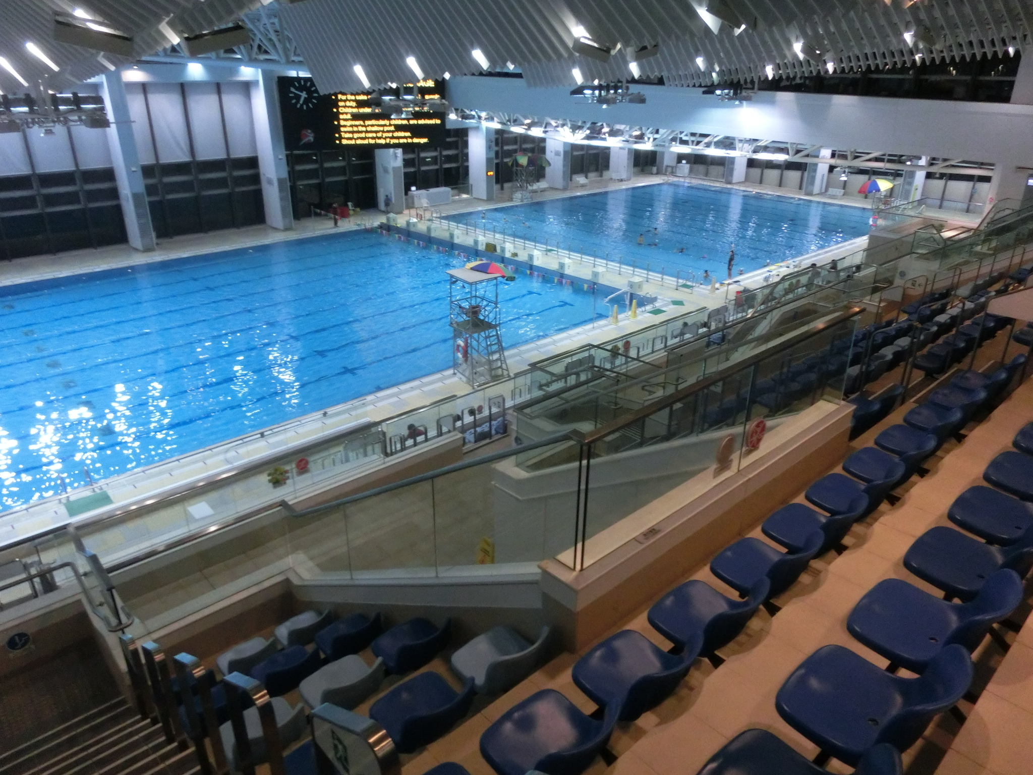 觀塘 (2013年版)觀塘游泳池, Kwun Tong Swimming Pool, Kwun Tong, Hong Kong